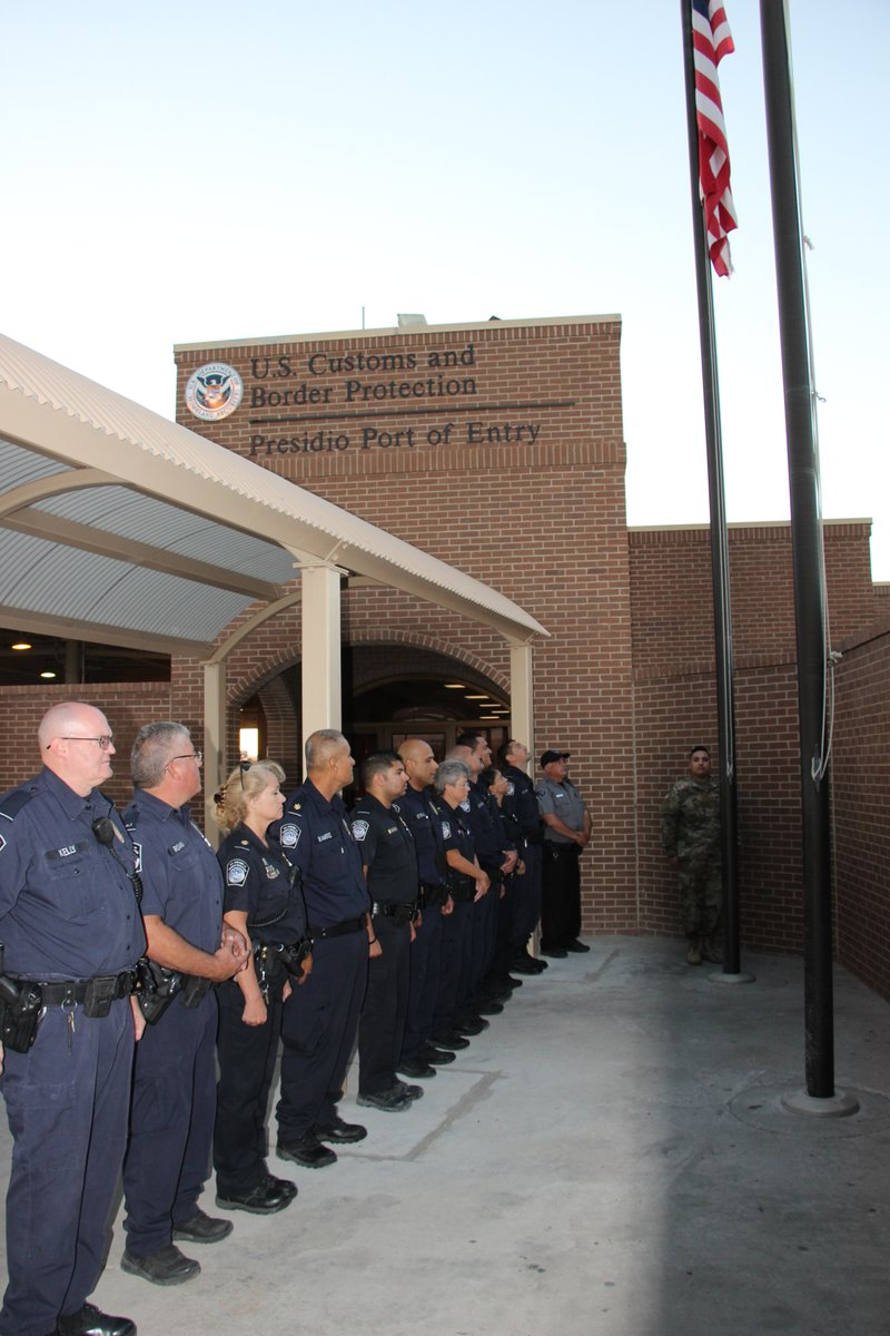 CBP Officers at the Presidio port of entry honoring those we lost on 9-11